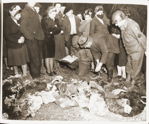 The victims, including women and one baby, were forced to dig their own grave and then were shot by SS troops six weeks before the arrival of American troops. On May 3, 1945, the 95th Infantry Division of the U.S. Ninth Army arrived in Suttrop and were informed by locals of the mass grave. American troops forced the townspeople to exhume the grave after which Russian displaced persons in the area identified the bodies. The victims were reburied in individual graves, and a U.S. Army chaplain conducted burial services. Russians remaining in the area placed wreaths on the graves. The original Signal Corps caption reads, "GERMAN CIVILIANS FORCED TO EXHUME ATROCITY VICTIMS. Amerian officers ordered German civilians of Suttrop, Germany, to exhume the bodies of 57 Russians killed by German SS troops and dumped into a mass grave before the arrival of troops of the Ninth U.S. Army. Soldiers of the 95th Infantry Division were led by informers to the huge common grave of the victims, including women and one baby, May 3, 1945. The Russians are said to have been forced to dig their own burial pit and then were shot so that their bodies would roll into it. The executions are said to have taken place six weeks before U.S. troops entered Suttrop. The German civilians who were forced to exhume the bodies also were forced to search them for identification papers and then rebury them in individual graves. A U.S. Army chaplain performed burial rites and wreaths were placed on the greaves by Russians remaining in the area. Before burial, all German civilians in the vicinity were ordered to view the atrocity victims.